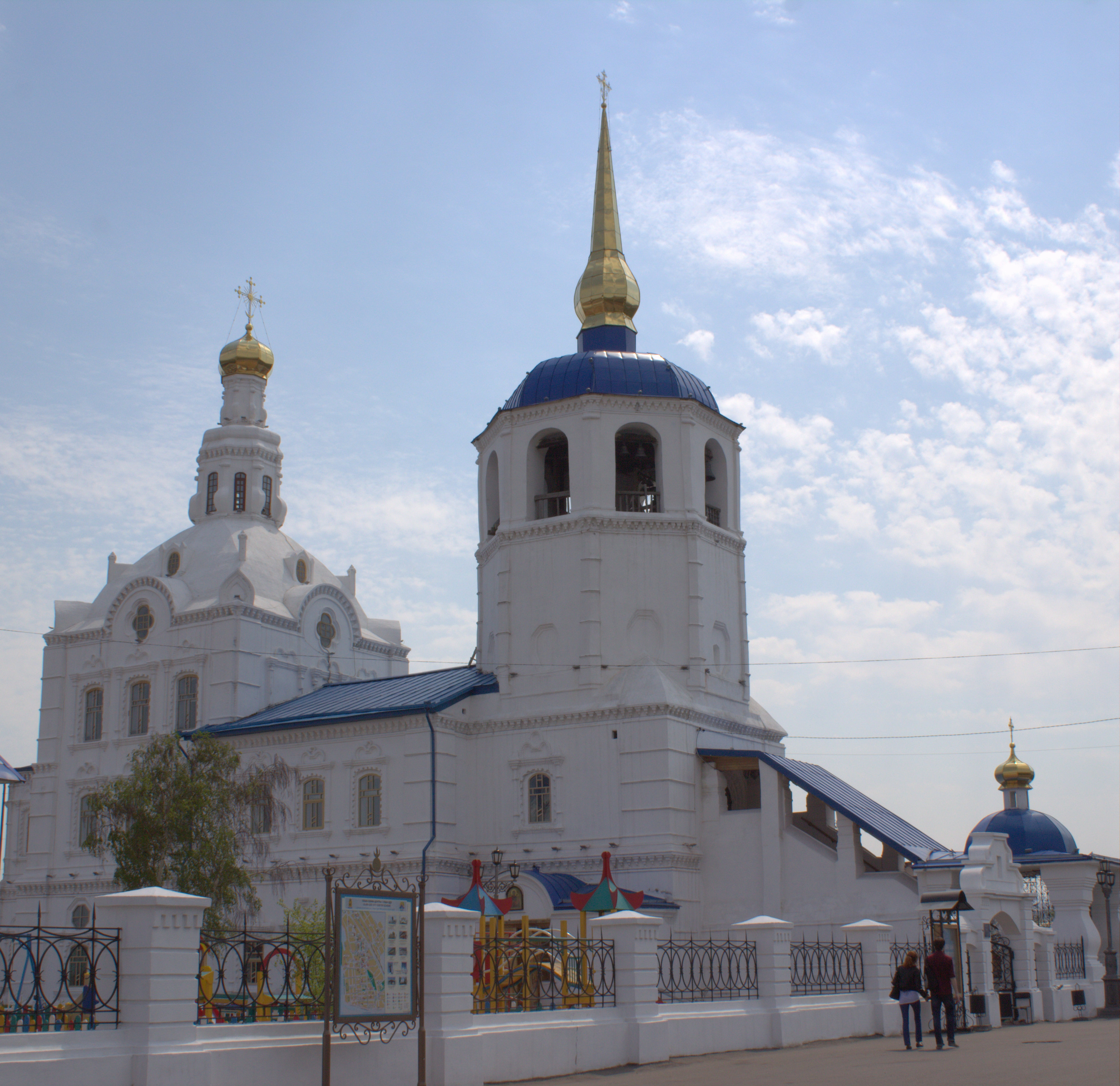 Odigitrievsky Cathedral in Ulan-Ude. Buryatia, Siberia